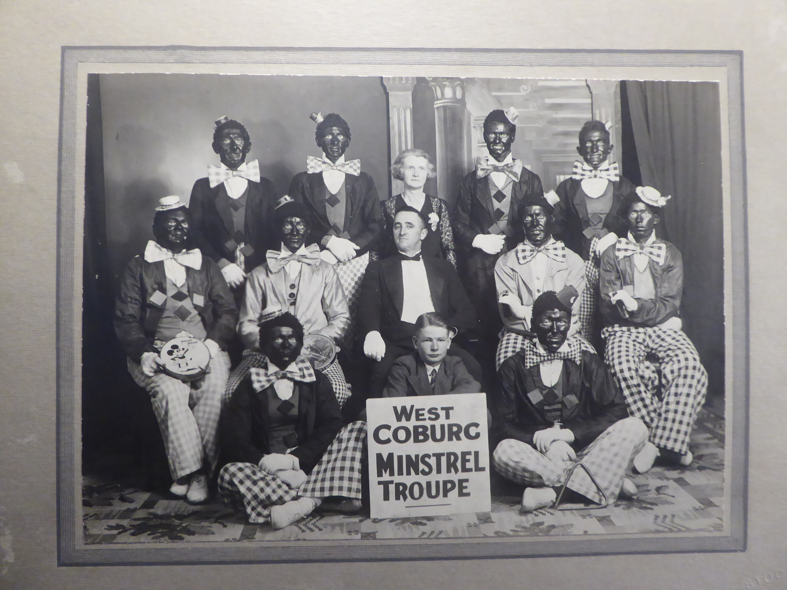 Black and White Mistrals Coburg Town Hall Melbourne Australia